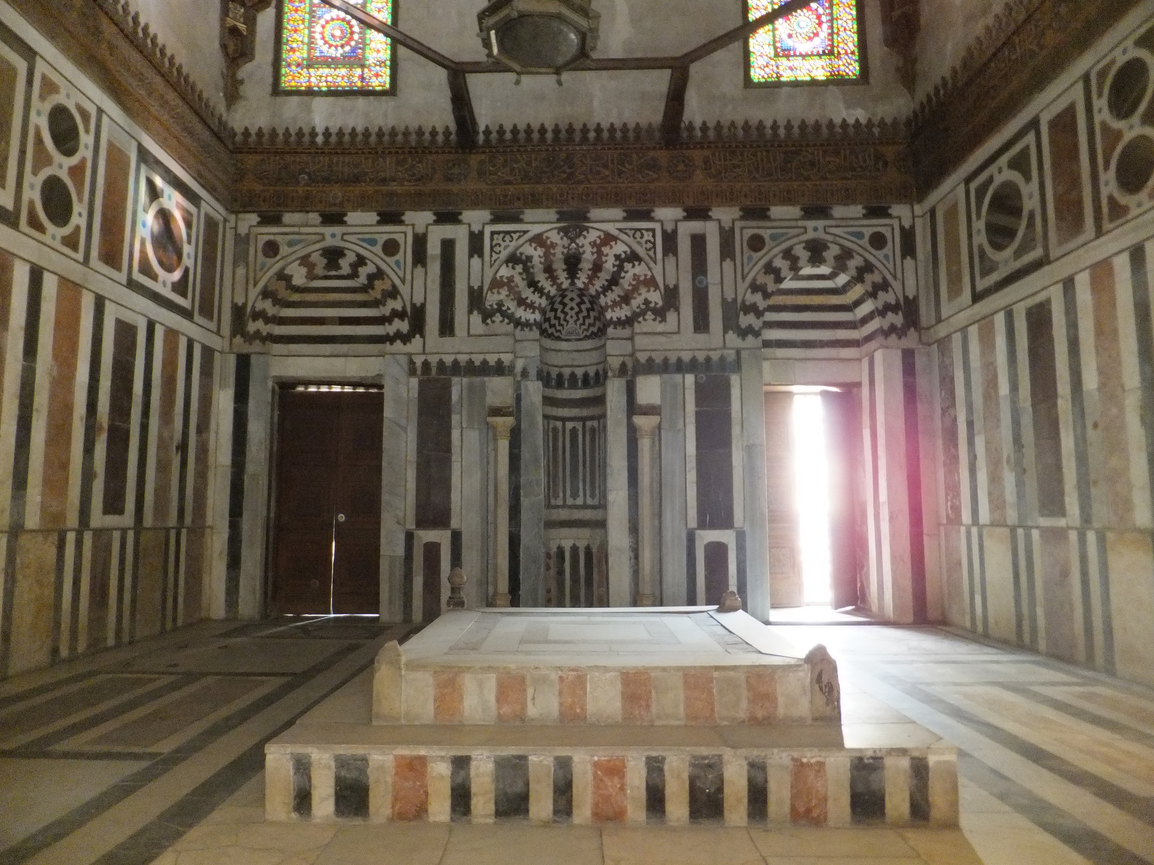 Mausoleum chamber of the Madrasa and Khanqah of Sultan Barquq, late 14th century.